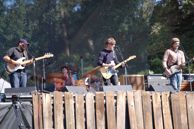 Hardly Strictly Bluegrass Festival #7, October 5th, 2007